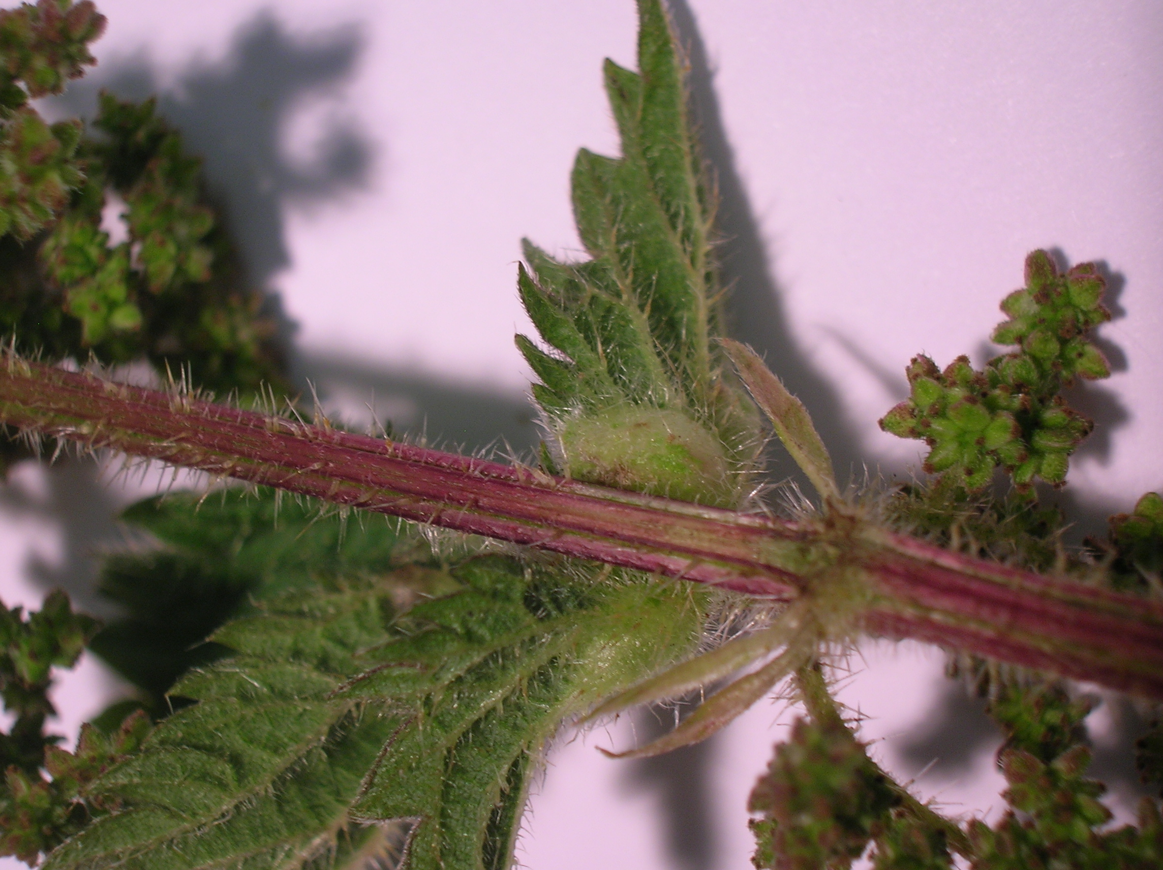 Dasineura urticae on Urtica dioica petiole and leaf vein. Nettle Pouch Gall. Eglinton Country Park. Ayrshire. Scotland.